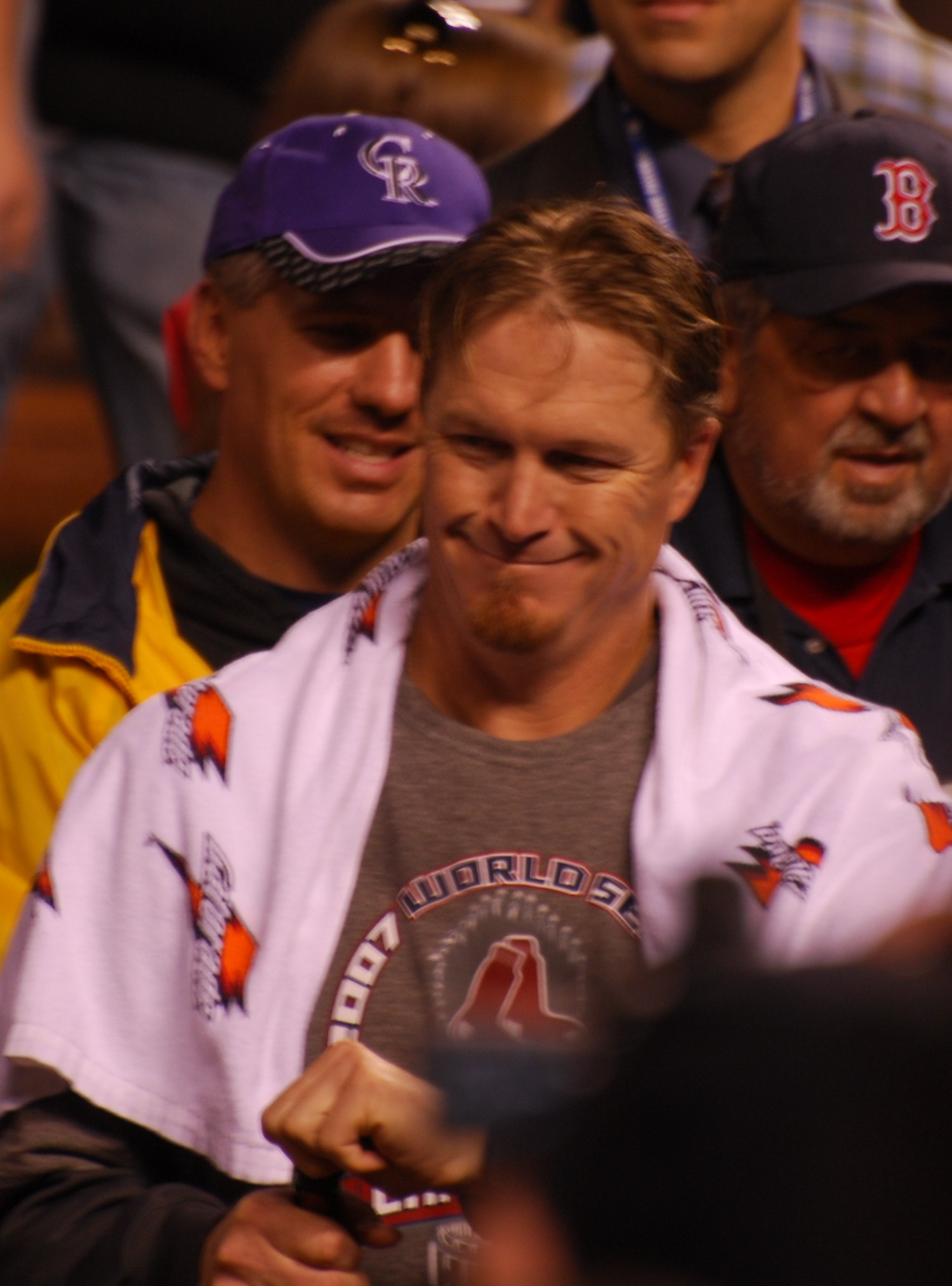 doused the crowd shortly after this